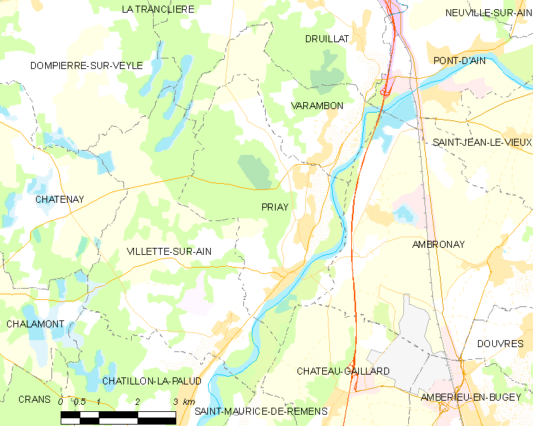 Map of French commune: Priay Map commune FR insee code 01314.png